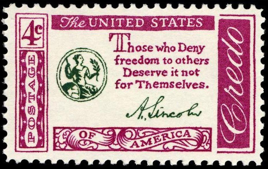 image of US Postage stamp depicting credo, of Abraham Lincoln